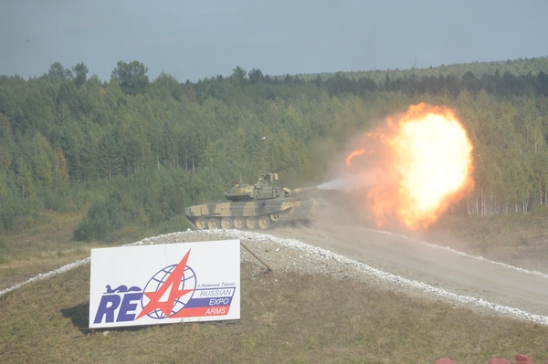 Russian Expo Arms 2011, T-90S is on display